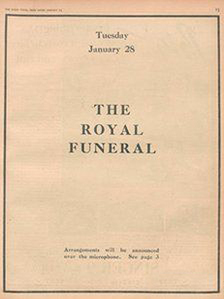 Page of The Radio Times Magazine for 28 January 1936, the funeral of King George V. The page shows no programmes scheduled, and the words "Arrangements will be announced over the microphone".